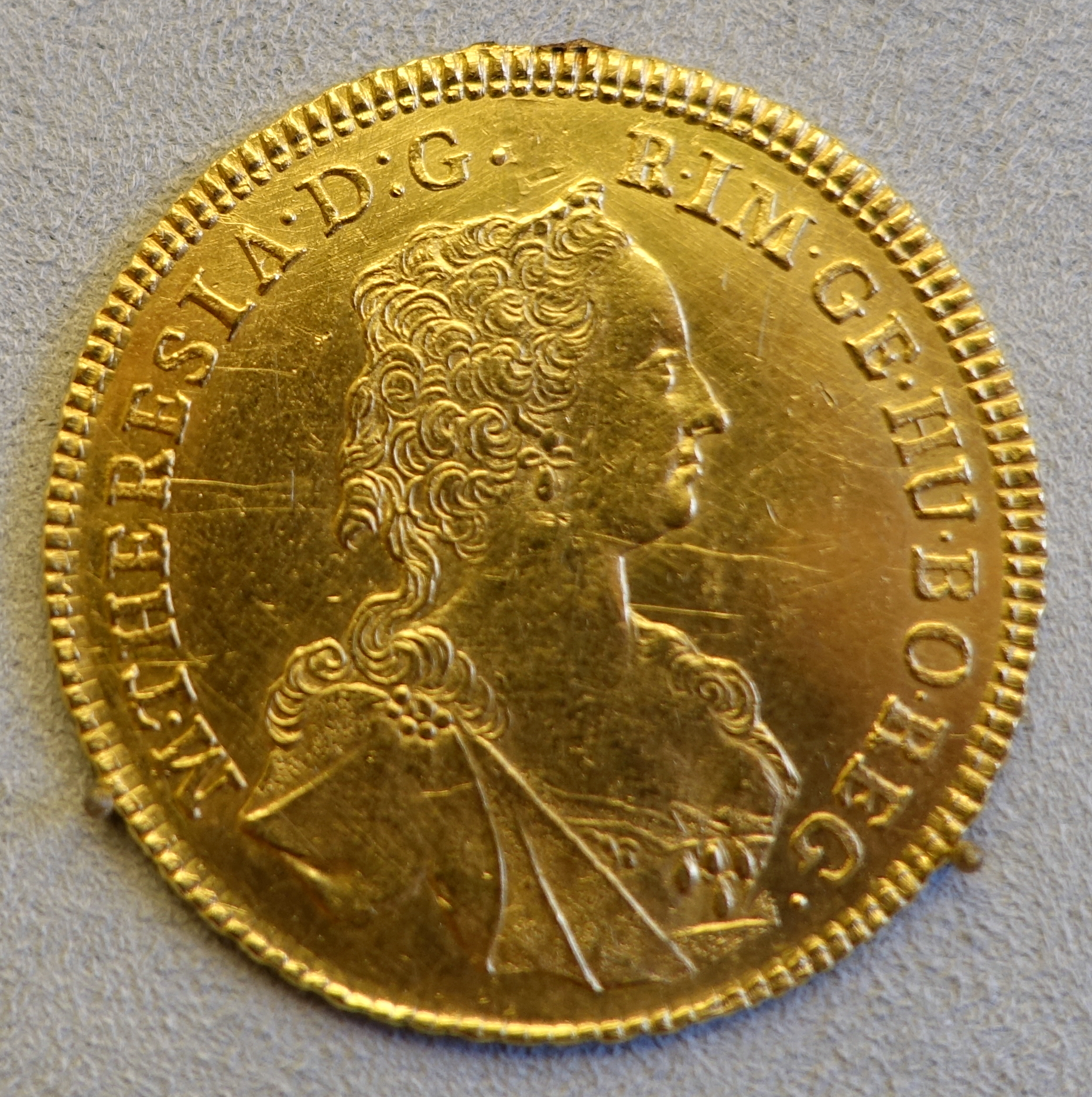 Exhibit in the Bode-Museum, Berlin, Germany. This work is in the public domain because the artist died more than 100 years ago.